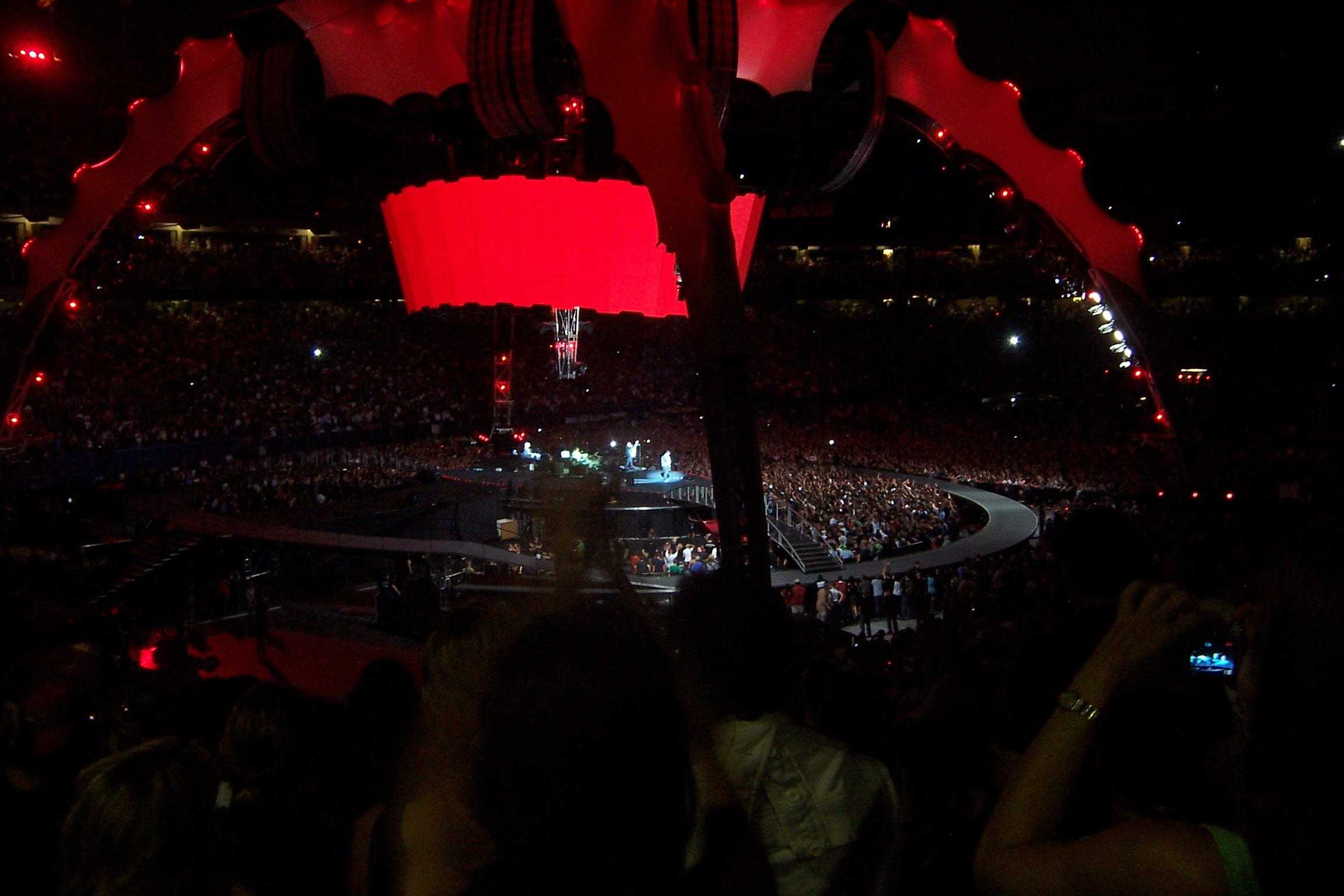 U2 performing the introduction to "Where the Streets Have No Name" at Giants Stadium, New Jersey, during their U2 360 Tour